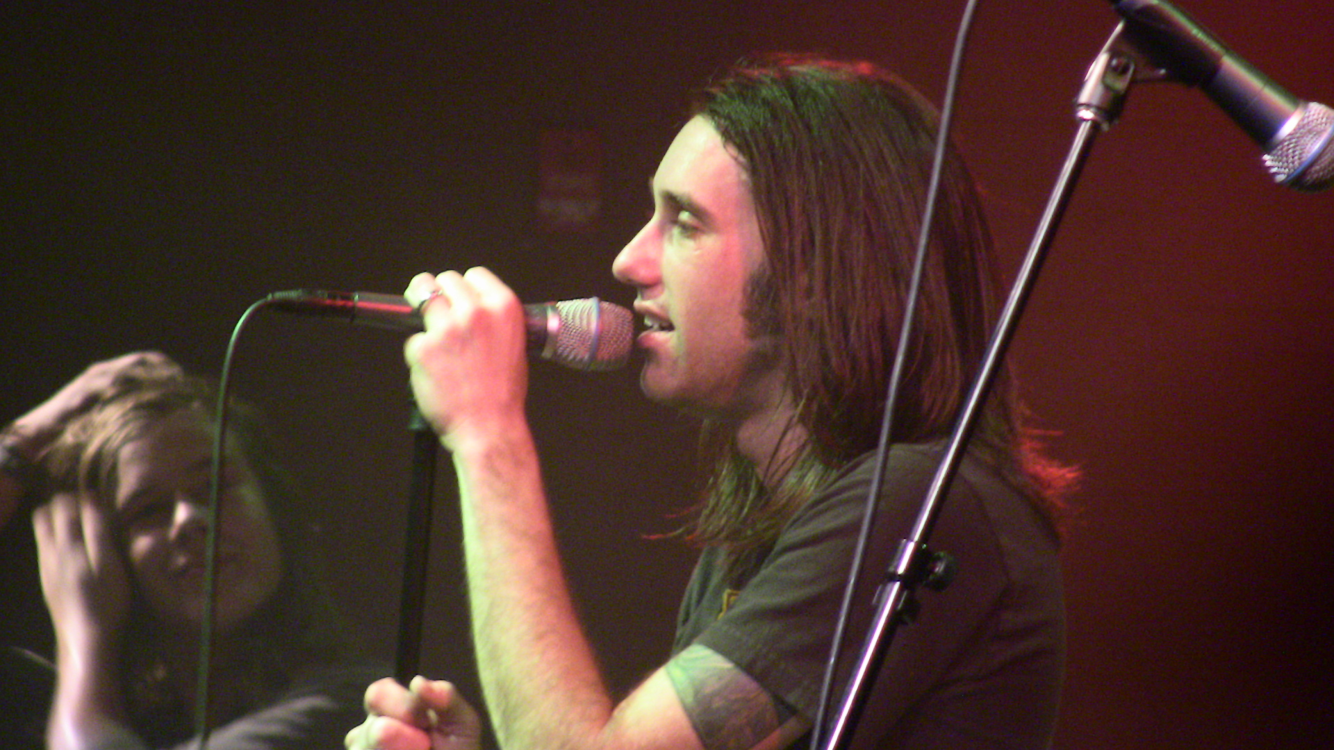 A picture of Disciple (band)'s lead singer.